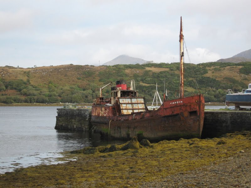 The tub boat Pibroch rusting at dock along the N59 in Co. Galway.